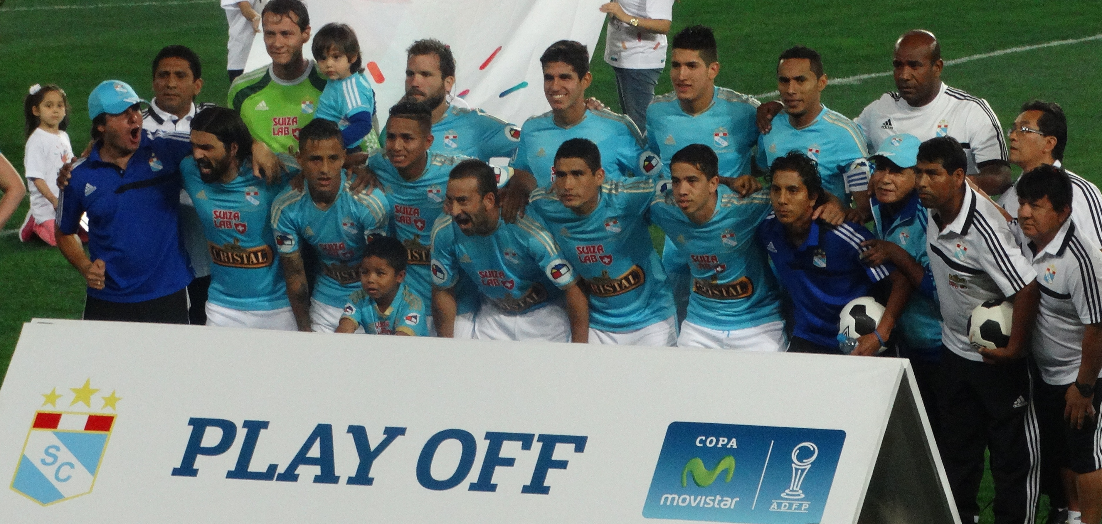 2014 finals Sporting Cristal lineup